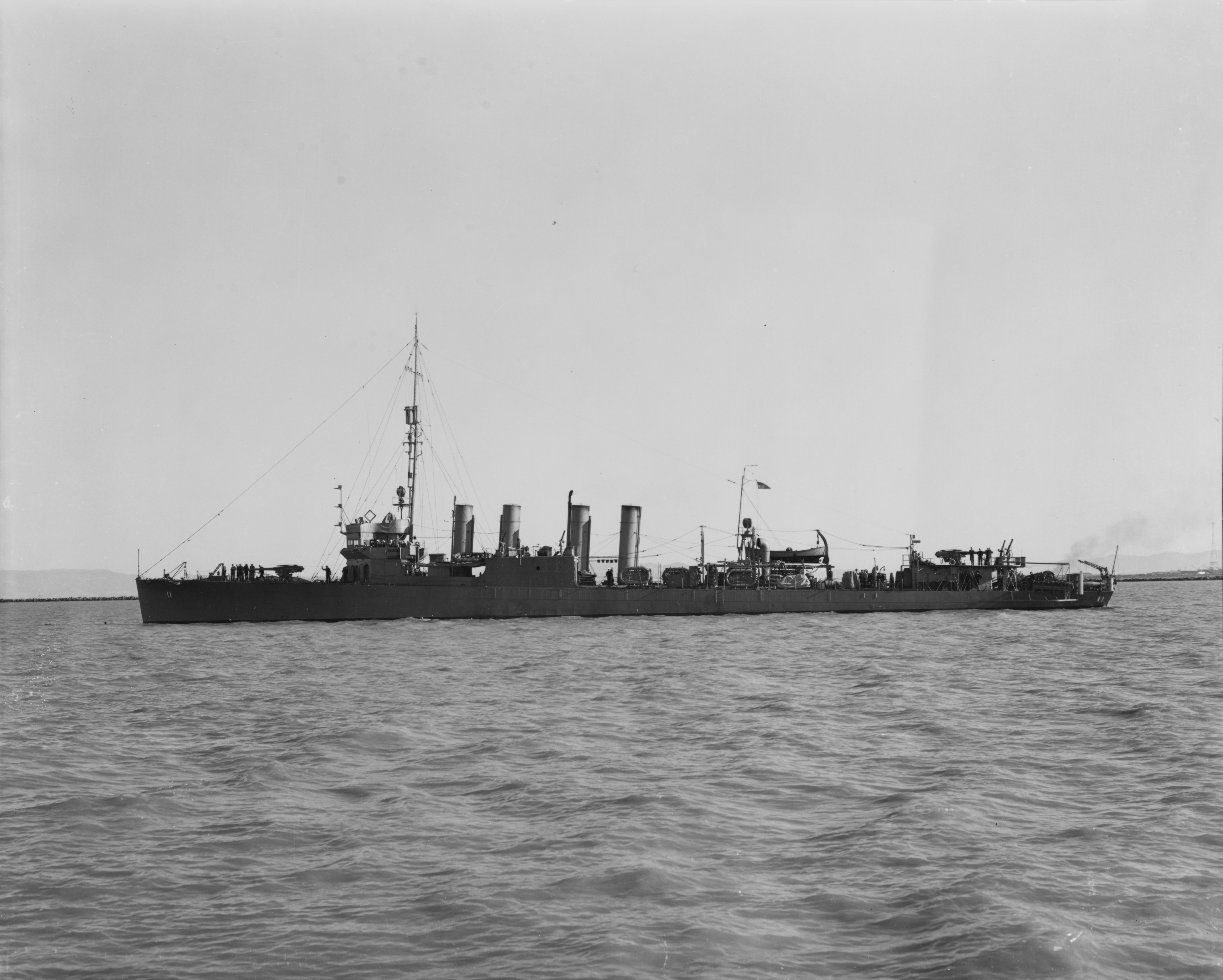 The U.S. Navy destroyer-minesweeper USS Hovey (DMS-11) off the Mare Island Naval Shipyard, California (USA), 7 June 1942. The ship retained her original four tall smokestacks, pre-war type pilothouse and tall foremast. She appears to carry twin 4/50 gun mounts (102 mm) fore and aft and eight .50 caliber (12.7 mm) anti-aircraft machine guns. Photograph from the Bureau of Ships Collection in the U.S. National Archives.